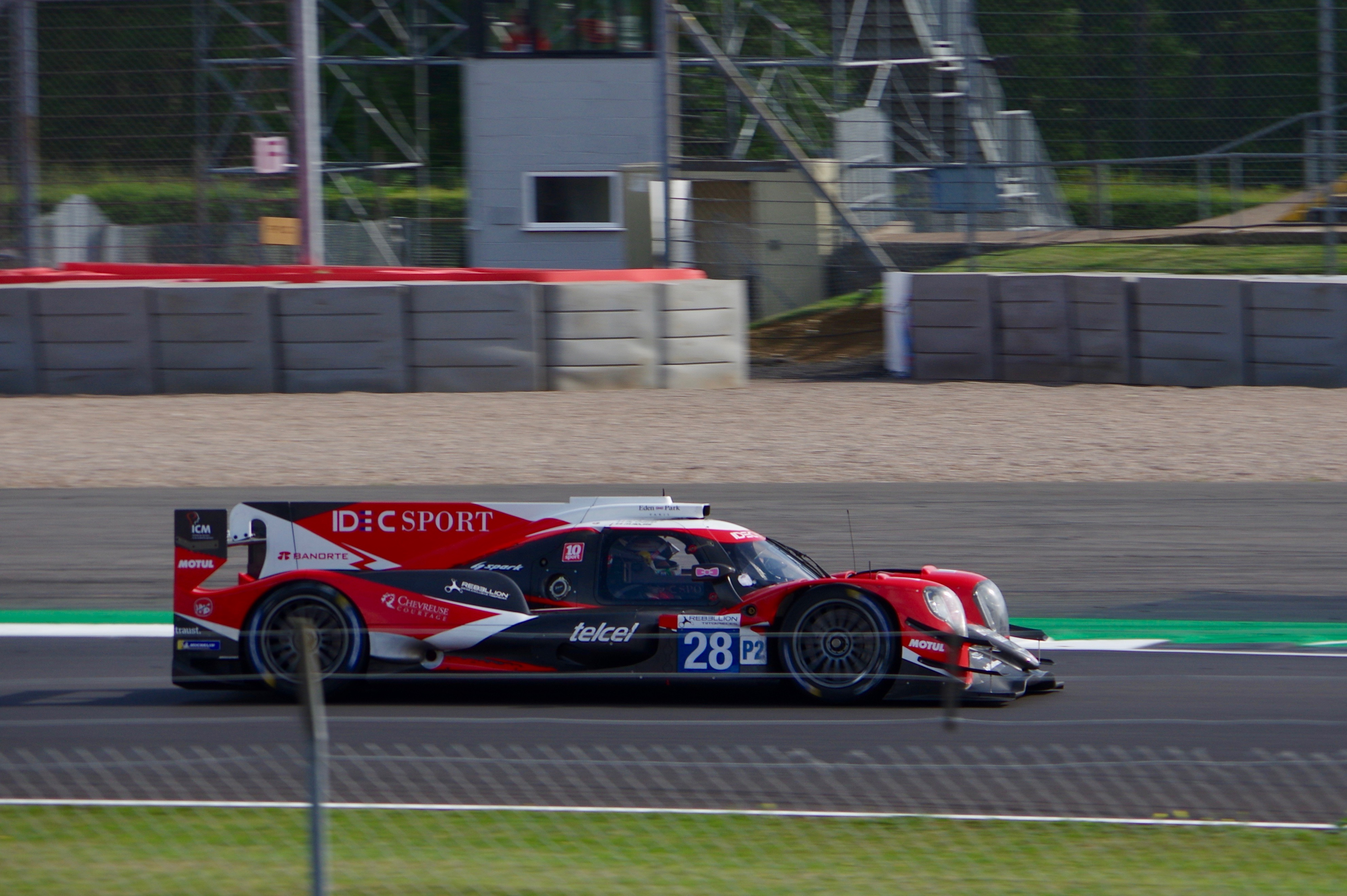 IDEC Sport's Oreca 07 Gibson Driven by Paul Lafargue, Paul Loup Chatin and Mémo Rojas